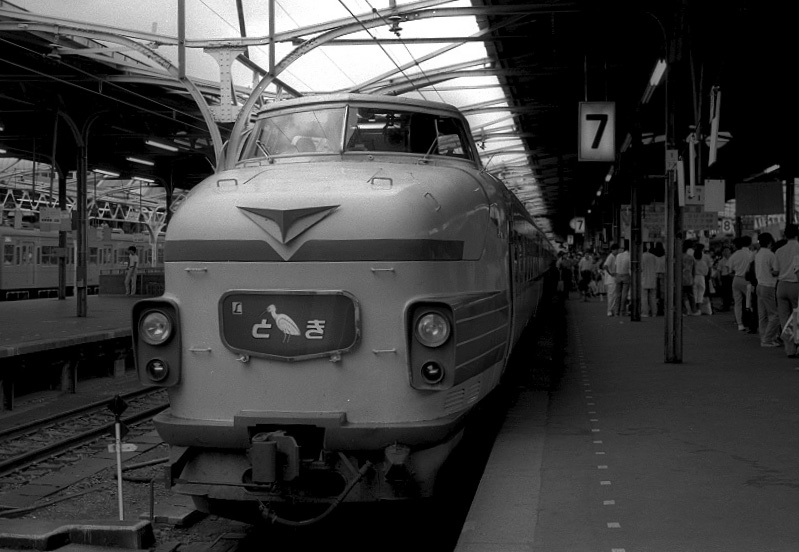 A JNR 181 series EMU at Ueno Station on a Toki limited express service